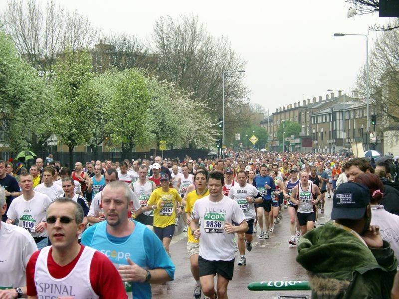 2006 Flora London Marathon in Deptford, London2006 Flora London Marathon